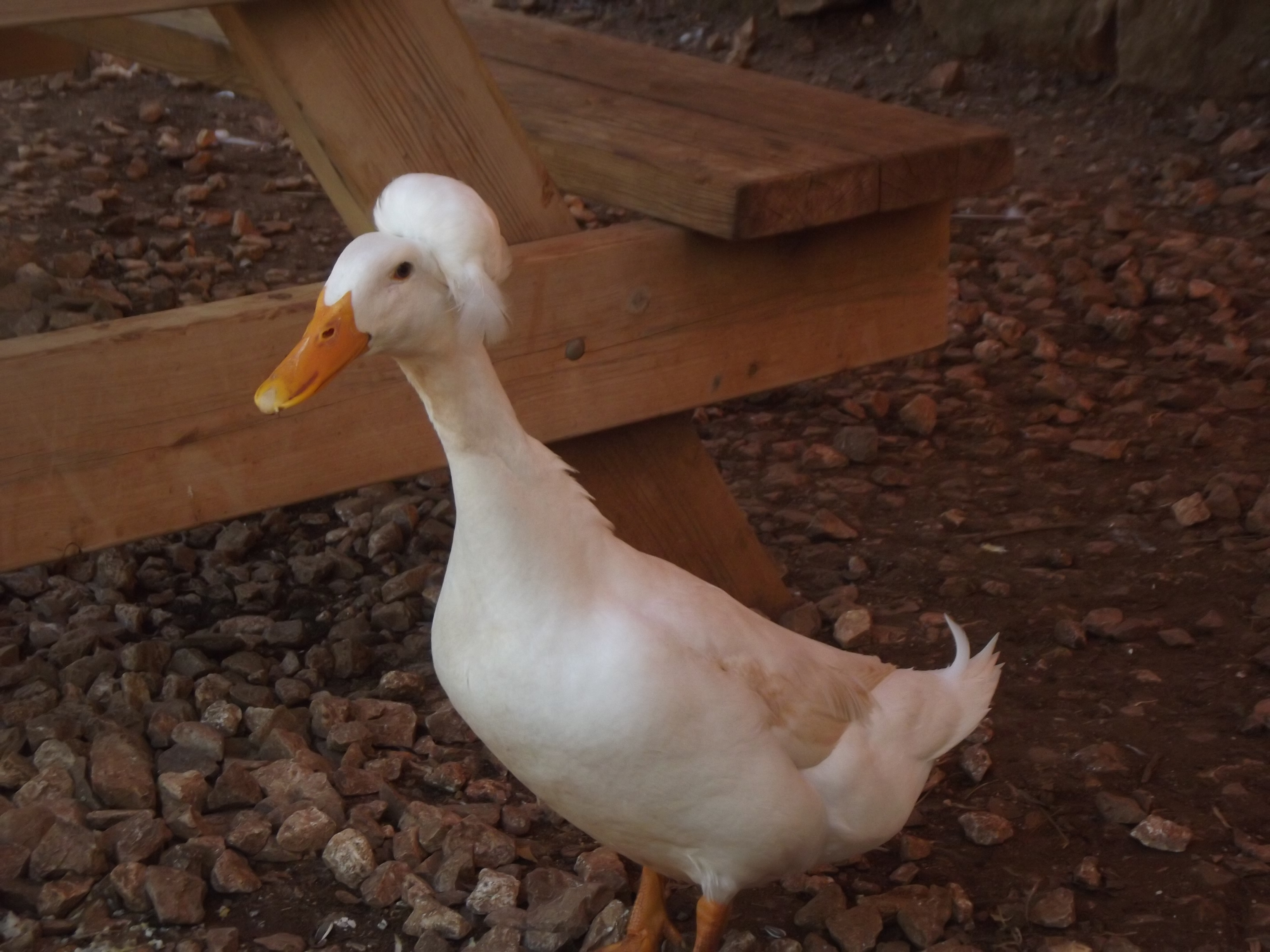 Crested Duck in Israel